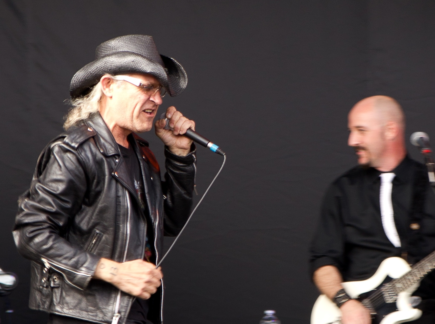 Men Without Hats vocalist Ivan Doroschuk and guitarist James Love, performing at the Burlington Sound of Music festival